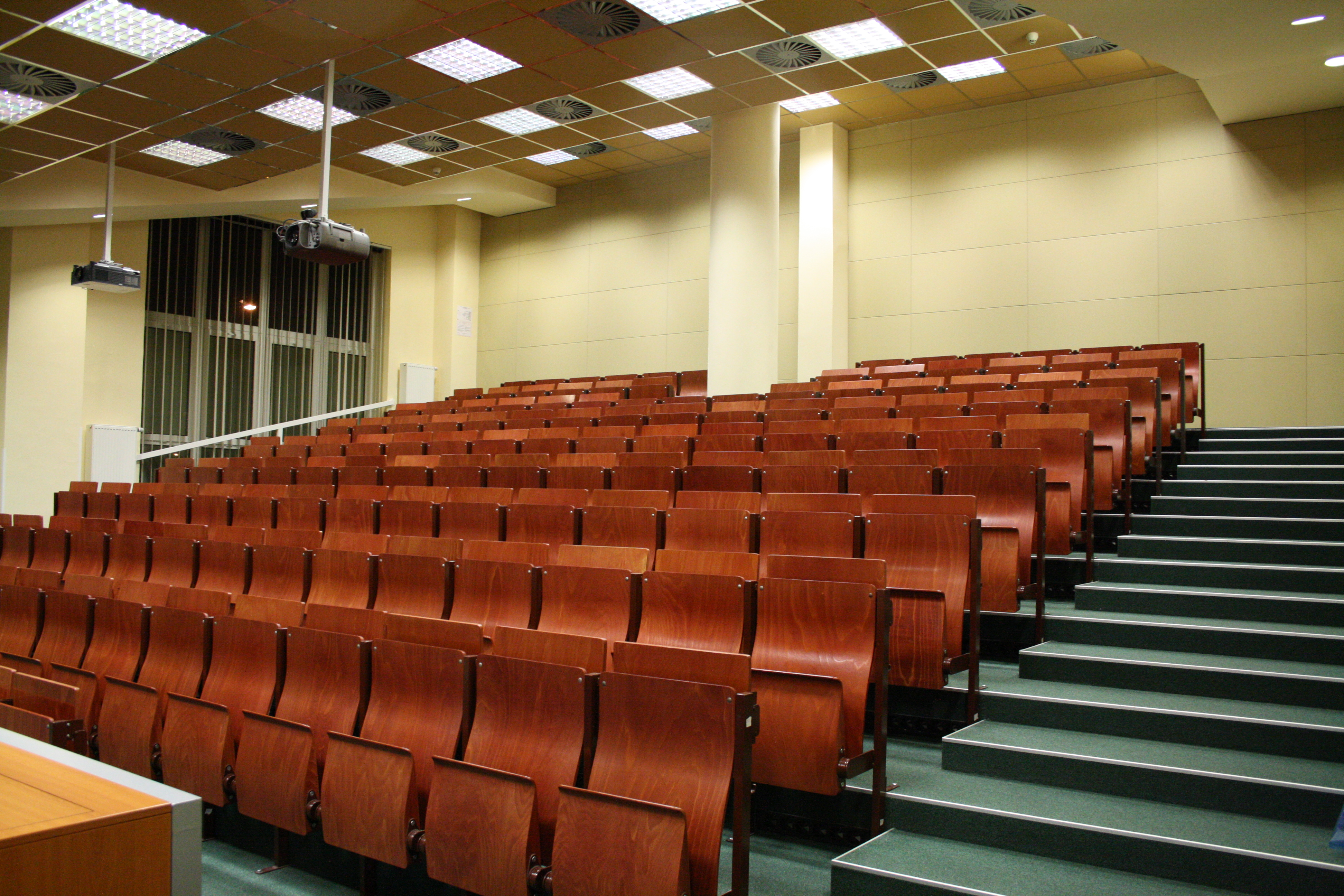 Faculty of Informatics Lecture Hall D2.